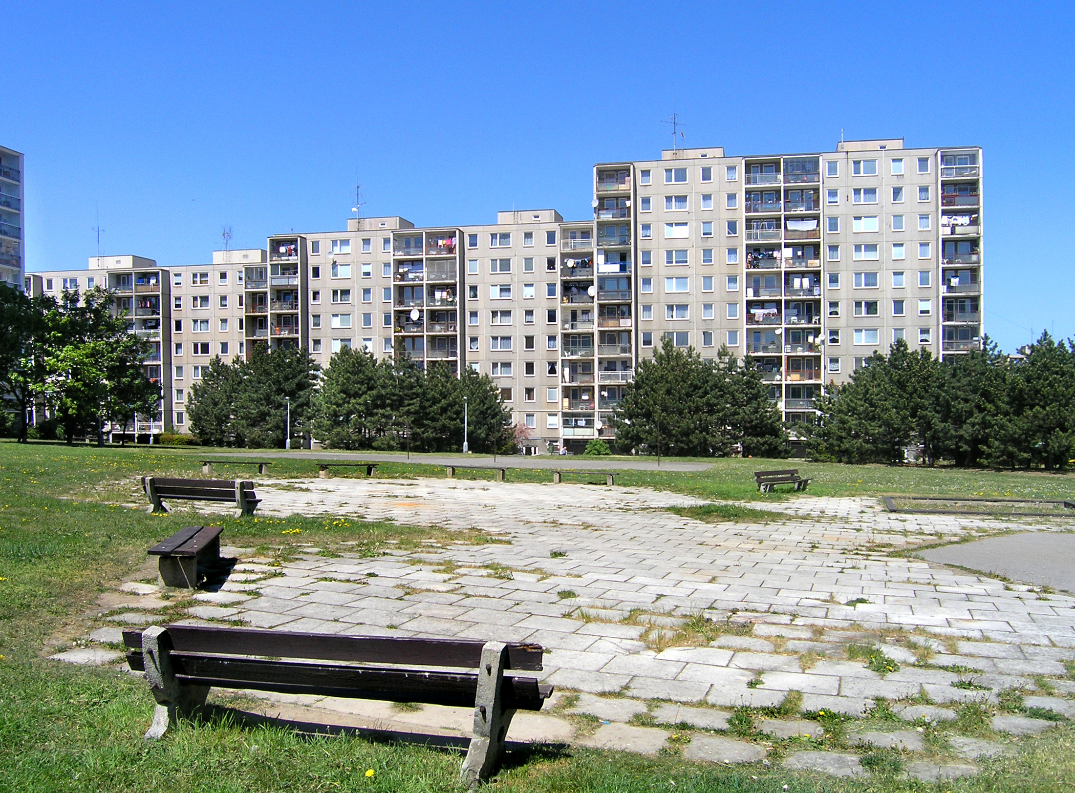 Jižní Město housing estate near Matúškova street, Prague